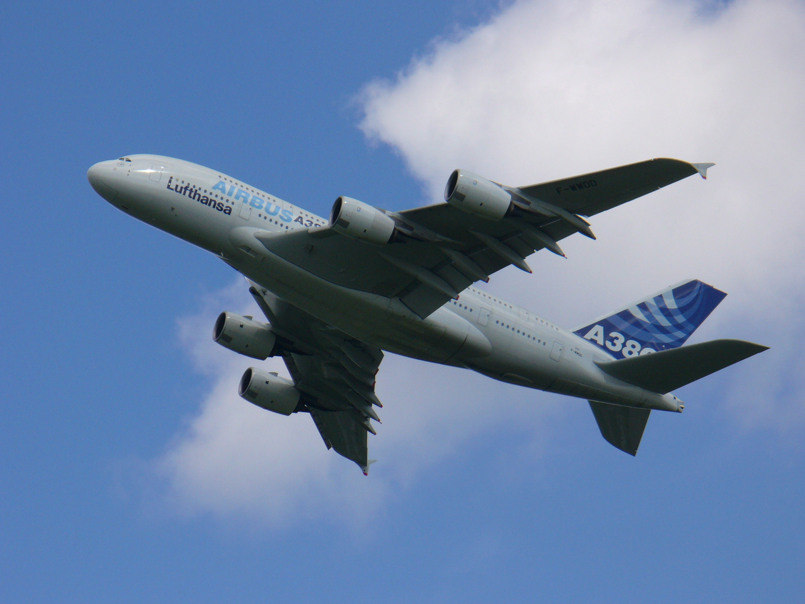 Airbus A380 w locie na ILA 2006 Airus A380 in flight during the ILA 2006